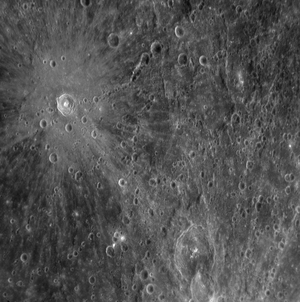 The crater with bright rays is now named Raden Saleh.During its flyby of Mercury, the MESSENGER spacecraft acquired high-resolution images of the planet's surface. This image, taken by the Narrow Angle Camera (NAC) on the Mercury Dual Imaging System (MDIS), was obtained on January 14, 2008, about 37 minutes after MESSENGER's closest approach to the planet. The image reveals the surface of Mercury at a resolution of about 360 meters/pixel (about 1180 feet/pixel), and the width of the image is about 370 kilometers (about 230 miles). This image is the 98th in a set of 99 images that were taken in a pattern of 9 rows and 11 columns to enable the creation of a large, high-resolution mosaic of the northeast quarter of the region not seen by Mariner 10. During the encounter with Mercury, the MDIS instrument acquired image sets for seven large mosaics with the NAC. This image shows a crater with distinctive bright rays of ejected material extending radially outward from the crater's center. A chain of craters nearby is also visible. Studying impact craters provides insight into the history and composition of Mercury as well as dynamical processes that occurred throughout our Solar System. The MESSENGER Science Team has begun analyzing these high-resolution images to unravel these fundamental questions. Mission Elapsed Time (MET) of image: 108827082